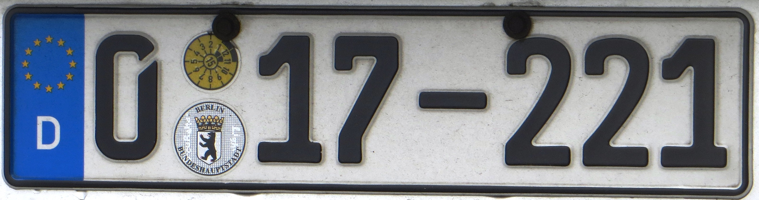 German diplomatic license plate, 0 = Diplomatic Corps, 17 = USA